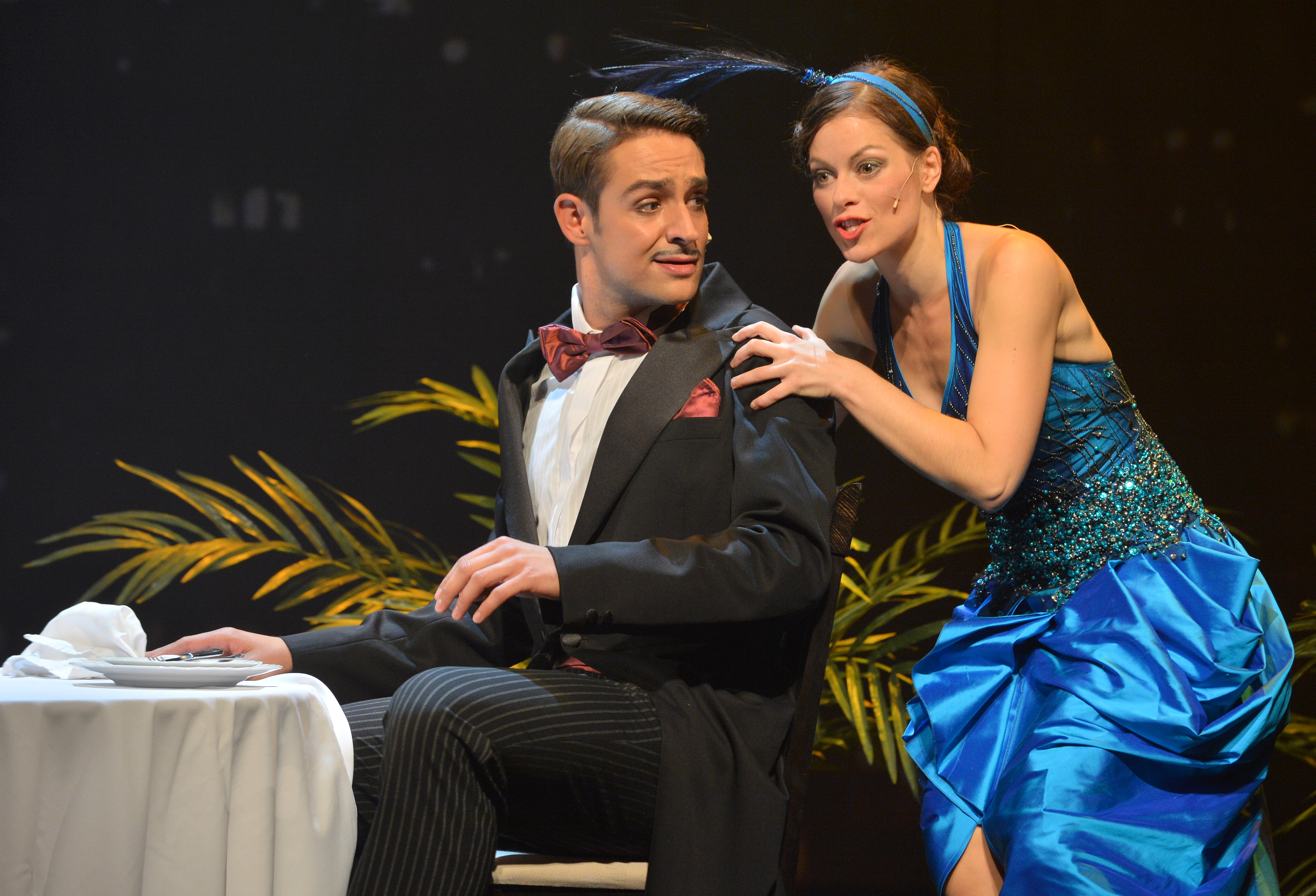 The musical Funny Girl by Městské divadlo Brno